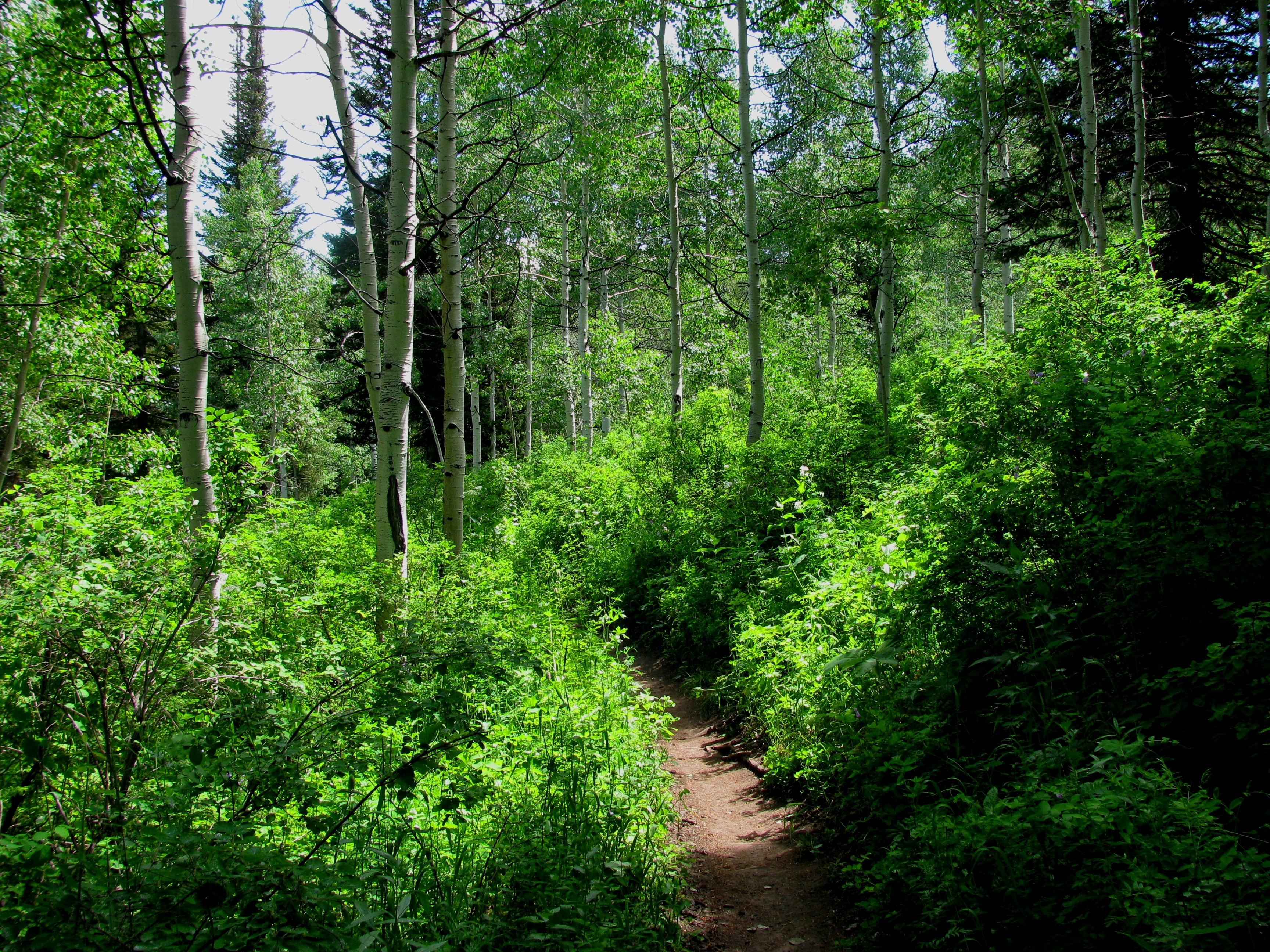 Trail into an aspen and fir grove, Uinta National Forest, Utah. Credits Photo by self, July 2009. GFDL or equivalent.